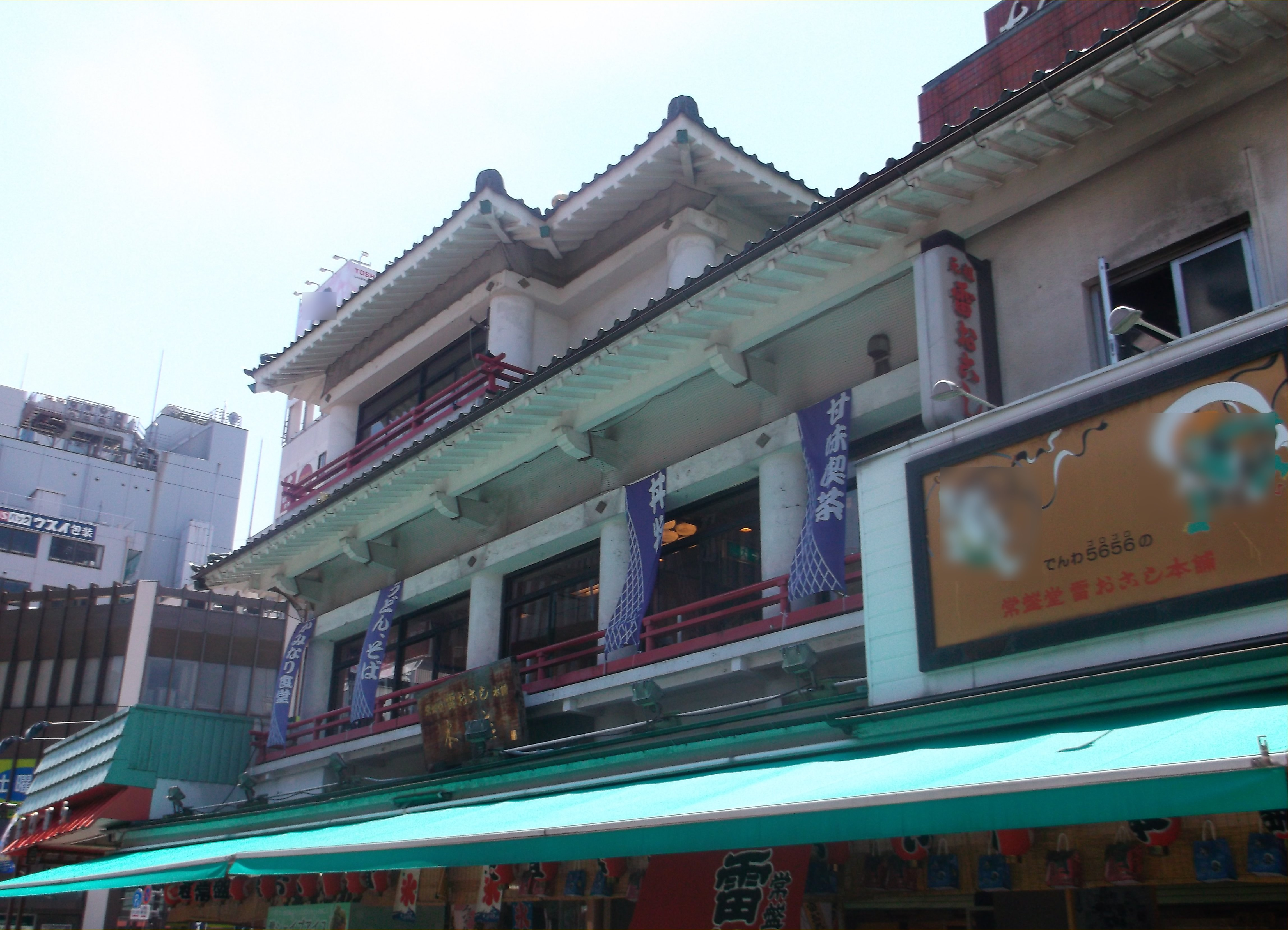 A photo of Wagashi shop"Tokiwado"(famous for Kaminari-okoshi),Asakusa,Taito-ku,Tokyo,Japan.